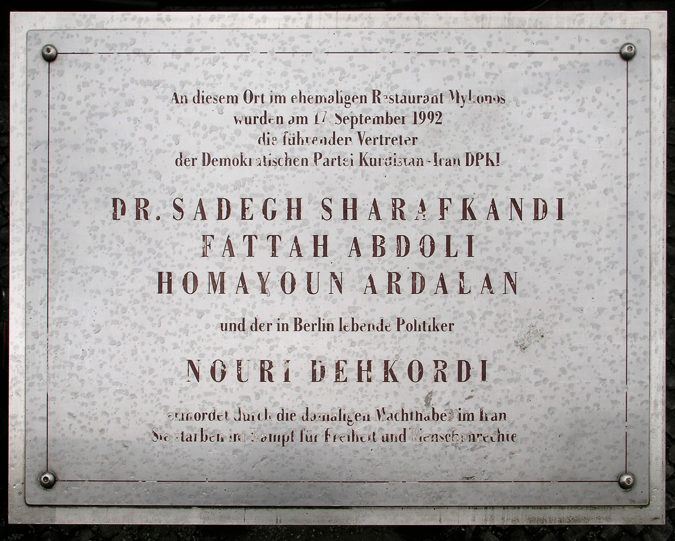 Memorial plaque, Mykonos-Attentat, Prager Straße 2a, Berlin-Wilmersdorf, Germany